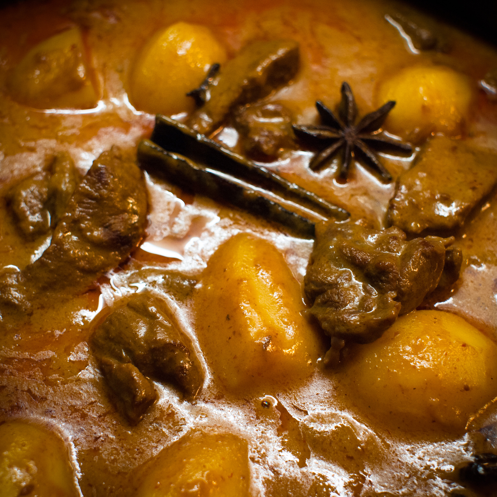 Matsaman nuea (Thai script: มัสมั่นเนื้อ) is matsaman/massaman curry with beef. The curry in this image also contains potatoes. It also shows the star anise, cinnamon and cloves needed for matsaman, spices which are not commonly used in Thai cuisine.